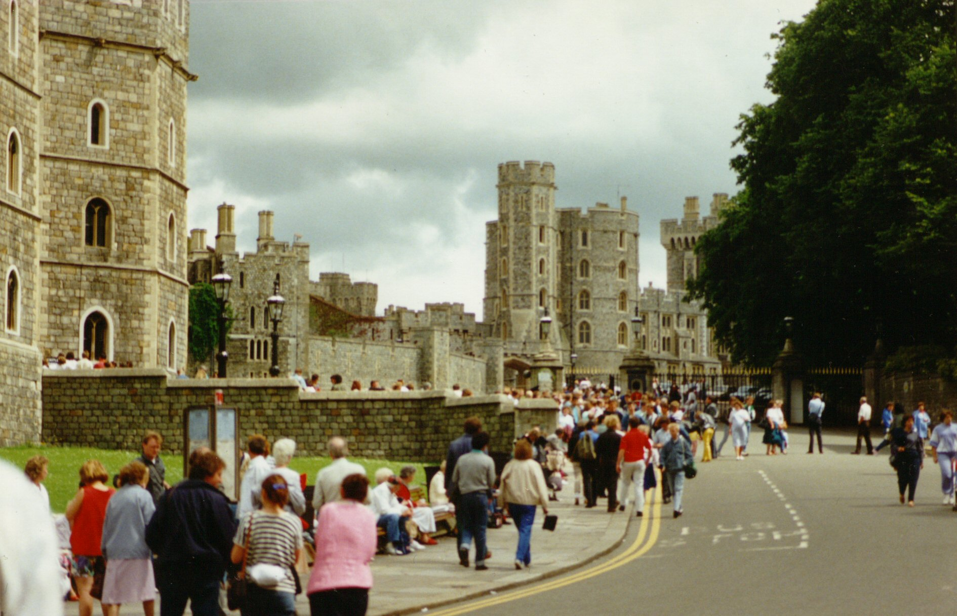 Photograph of Windsor castle showing visitors. Taken Summer 1989 by contributor. All rights waived.